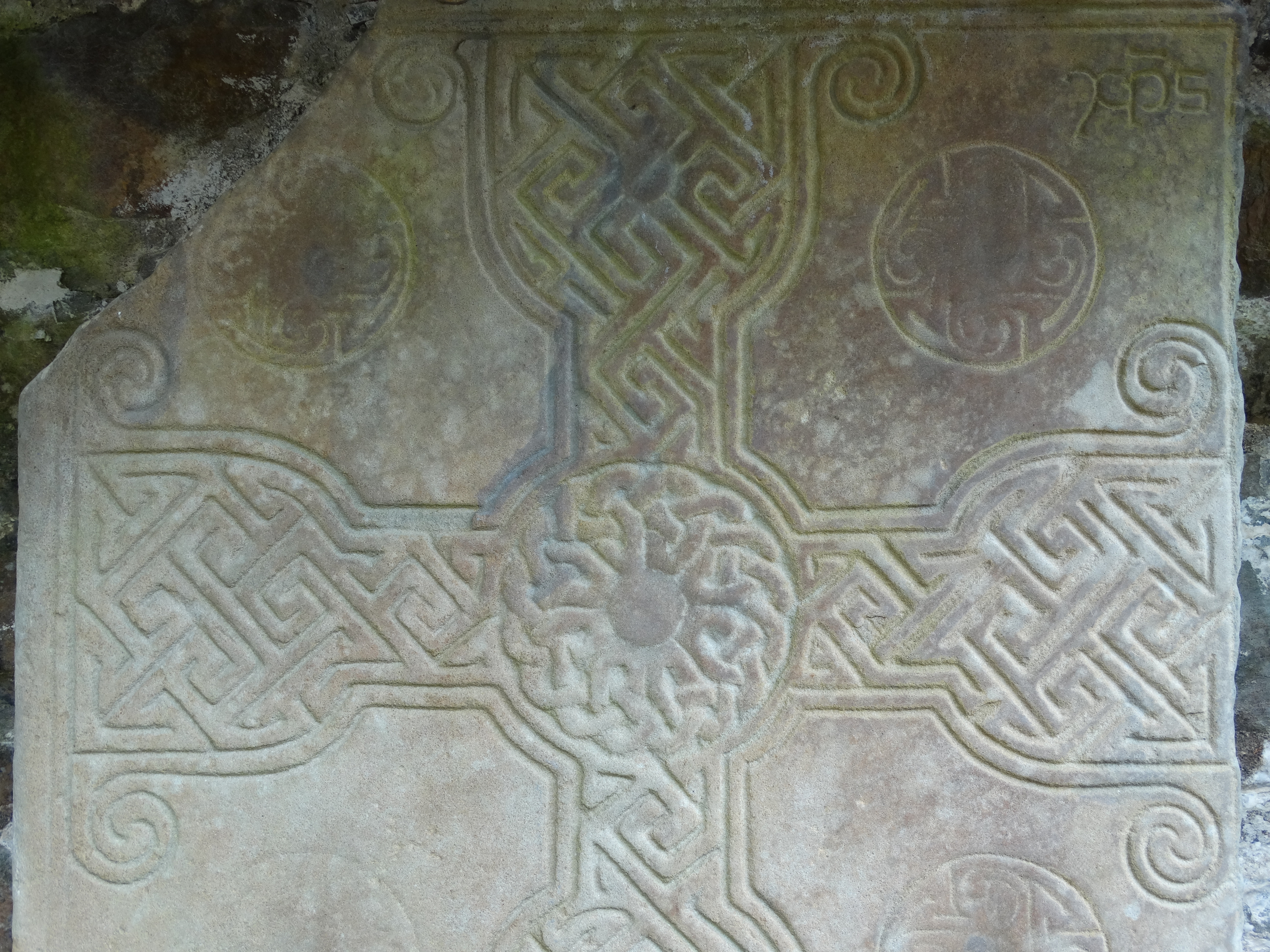 Tullylease Church